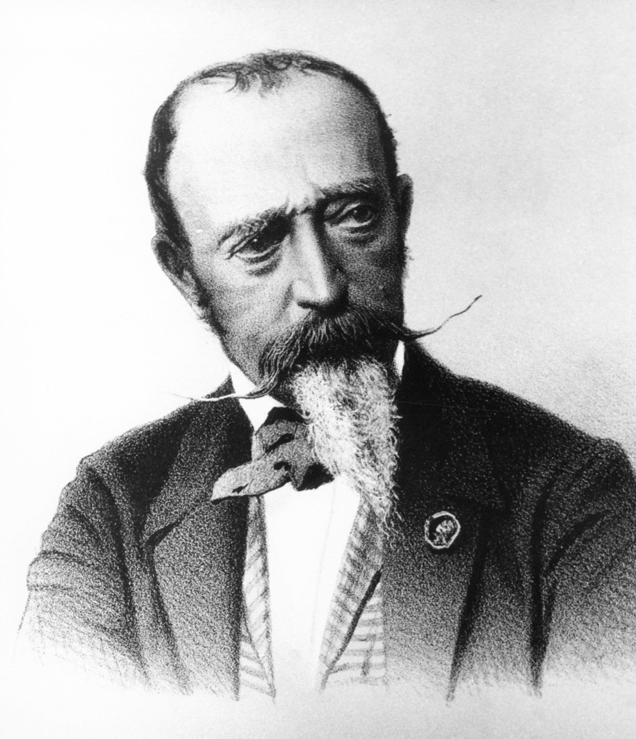 Horace Vernet